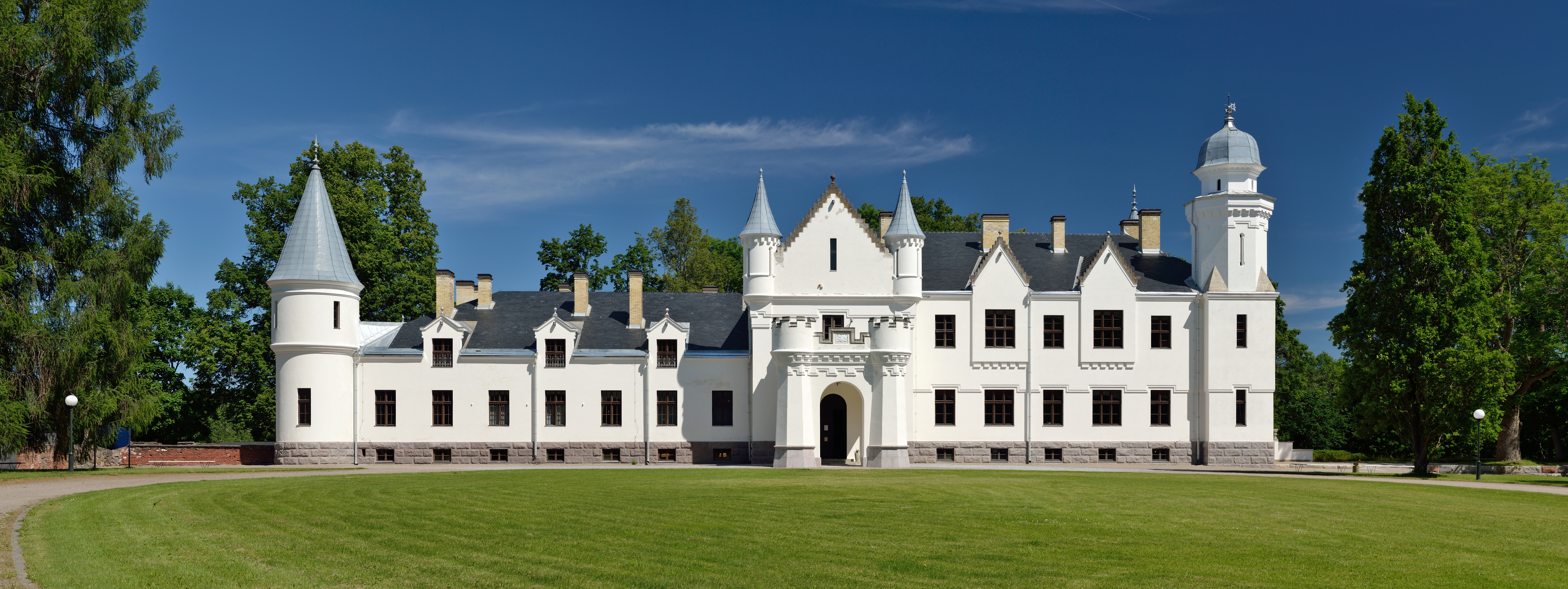 Alatskivi manor main building, built in 1880–1885 and modelled after the Balmoral castle in Scotland.